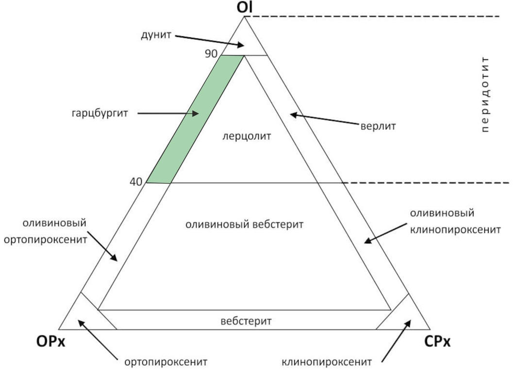 Поле гарцбургита на диаграмме Оливин-Opx-Cpx